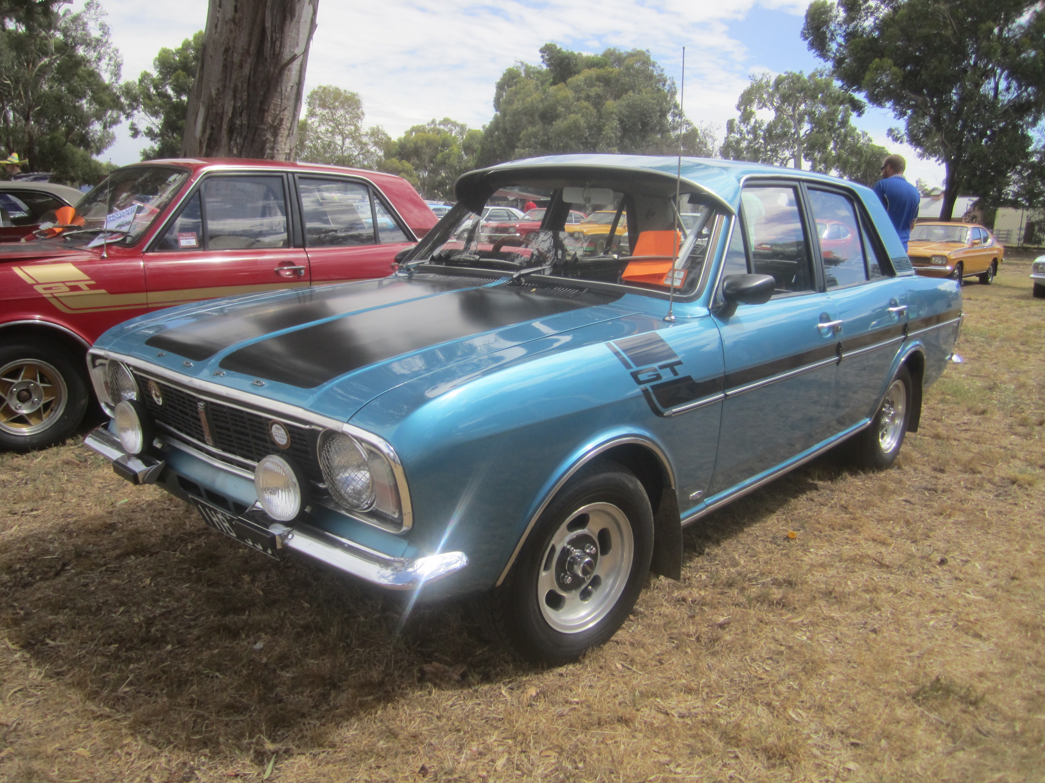 Starlight Blue. The Mk II Cortina, built from 1966-70 was a squarer, boxier shape than the Mk I. Engines were initially carried over from the Mk I but replaced in 1967 with the 1600 with the cross flow head. A mild facelift in 1969 saw separate F O R D letters on bonnet and boot, a black grille and chrome above and below the tail lights. In England and NZ the models were; Base, Deluxe, Super, GT and in 1967, 1600E (NZ GTE). Australian models were 220, 240, 440, 440L, GT and GTL. The Australian GT originally followed the subtle styling of the XT GT Falcon but when the XW GT came out in 1969, with bold stripes and blacked out bonnet, the Cortina GT followed suit. It also got bumperettes, driving lights, GT engine and suspension, full instumentation (4 dials above dash until 1968, then brought down into dash) GTL got Walnut dash and door caps, Fairmont seat trim and console.